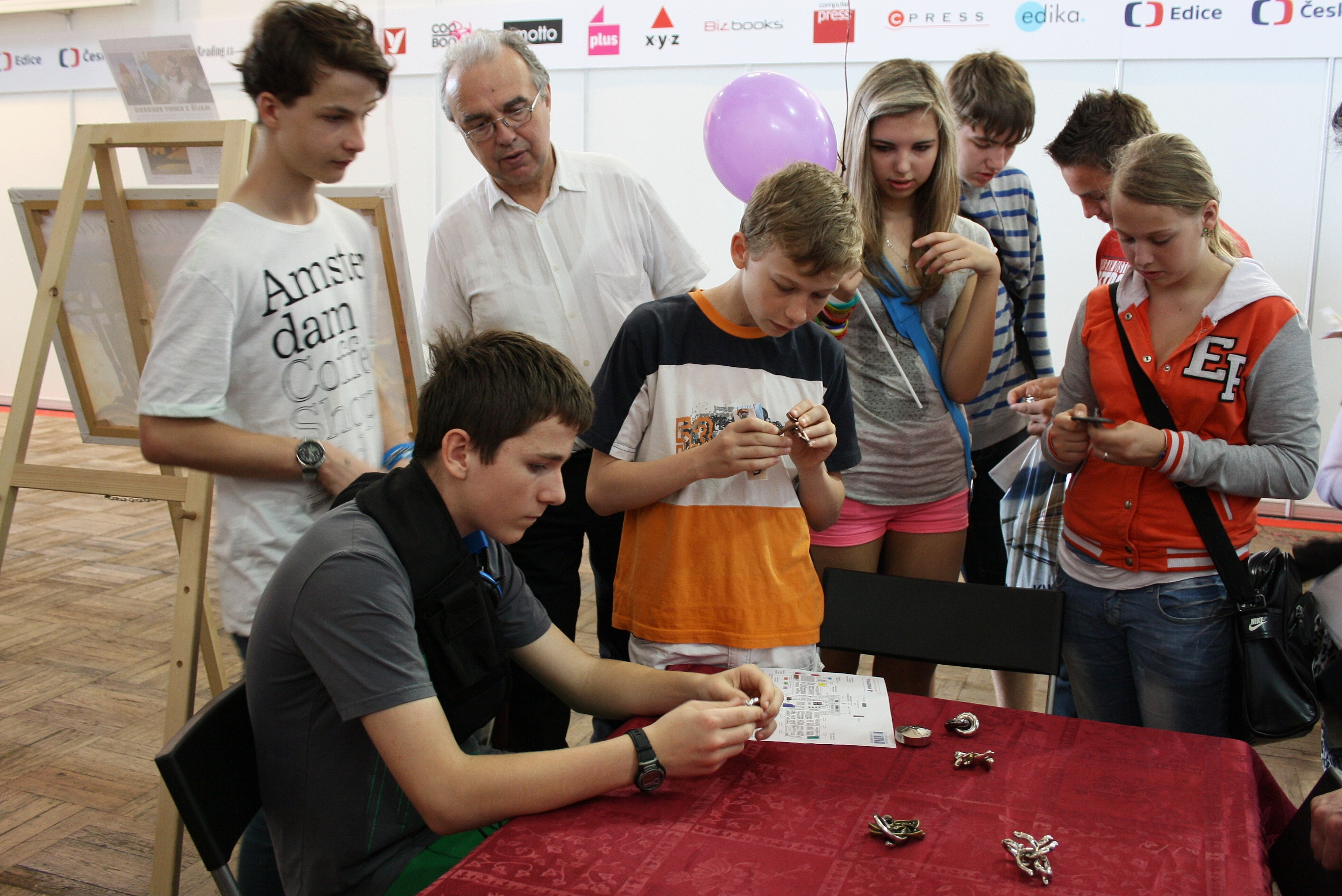 Česky: Svět knihy 2013 -klub deskových her Paluba, hlavolamy Hanayama Personality rights warning This work depicts one or more identifiable persons. The use of depictions of living or deceased persons may be restricted by laws regarding personality rights. The extent of these restrictions depends on jurisdiction. Personality rights restrictions apply independently of copyright. Before using this content, please ensure that the intended use does not infringe any personality rights under applicable laws. You are solely responsible for ensuring that you do not infringe someone else's personality rights. See our general disclaimer.